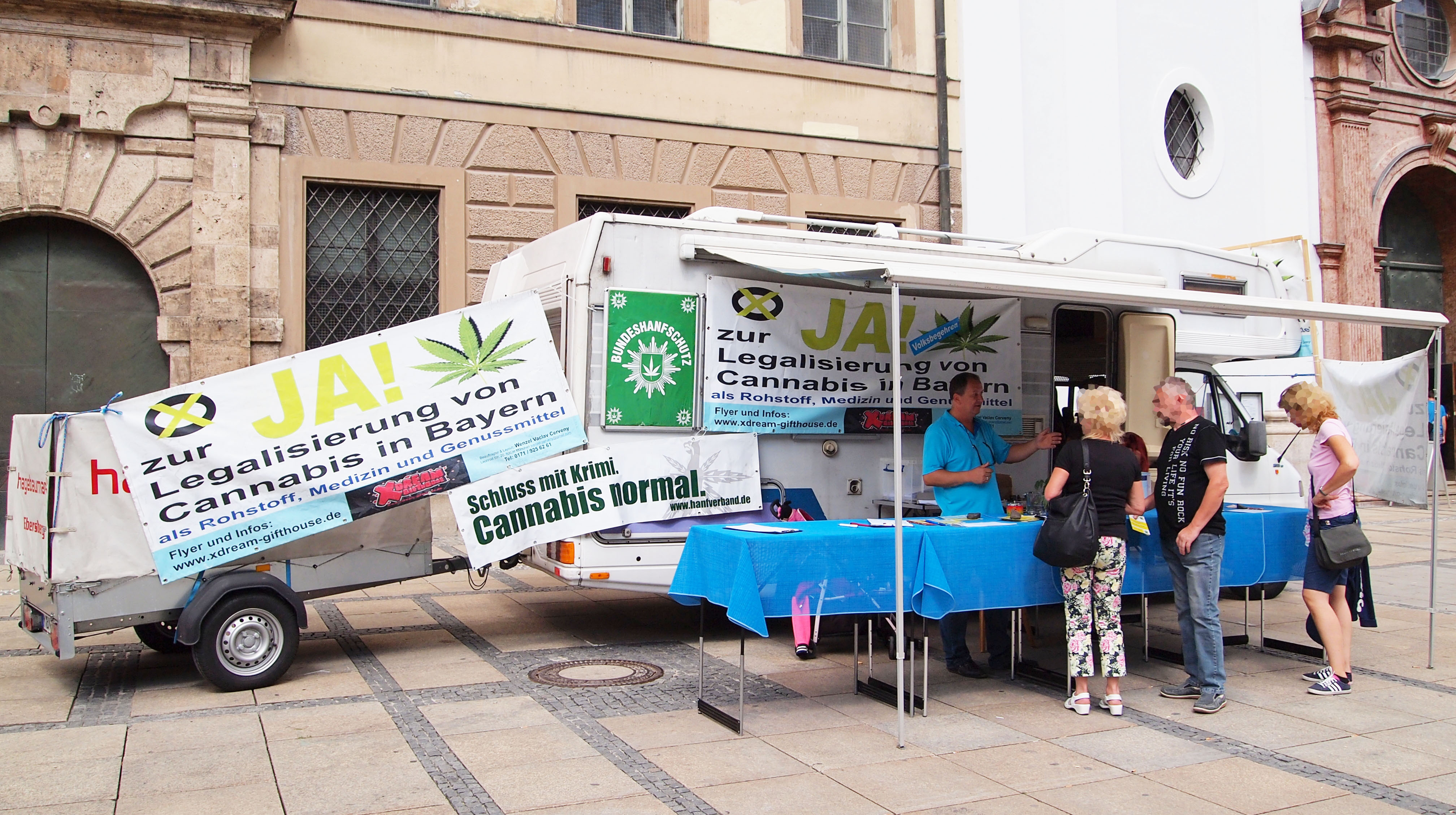 Stall for cannabis legalization on the street Neuhauser Straße in Munich.This photograph was taken with an Olympus E-PL1